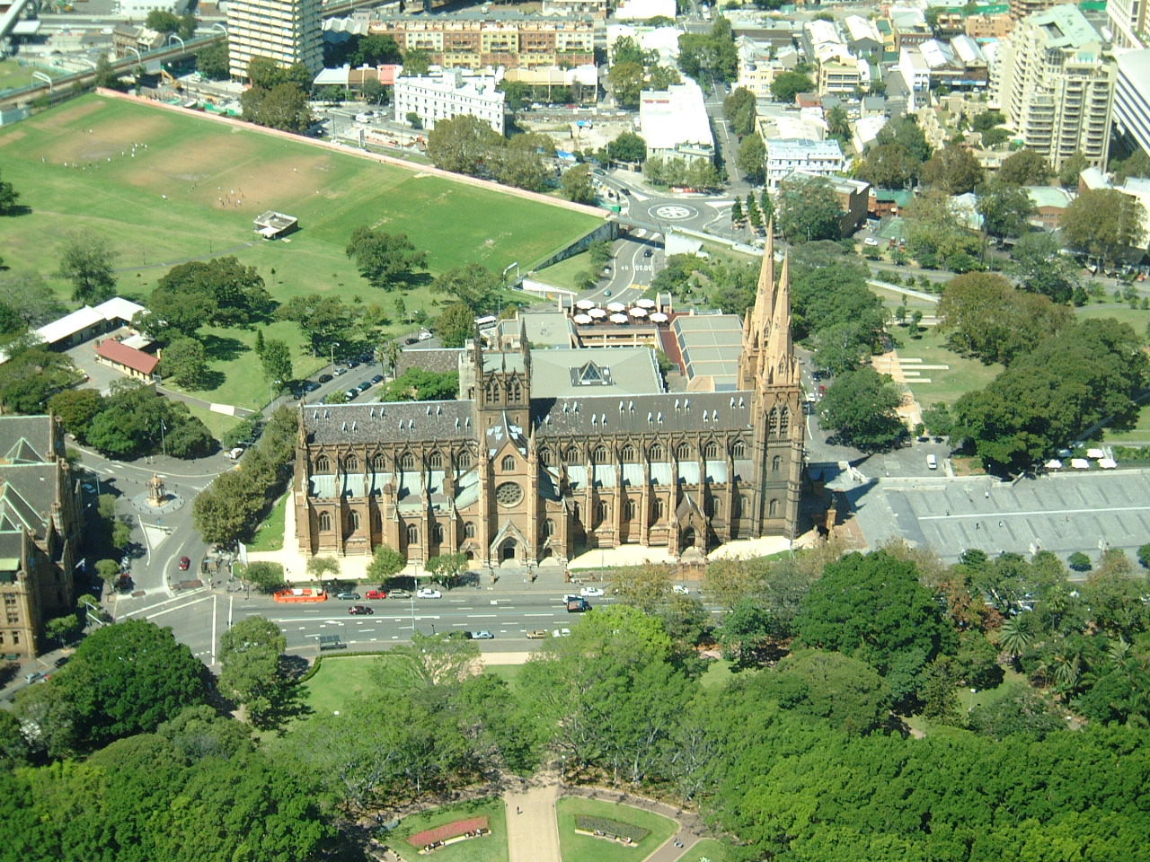 St. Mary's Cathedral, Sydney